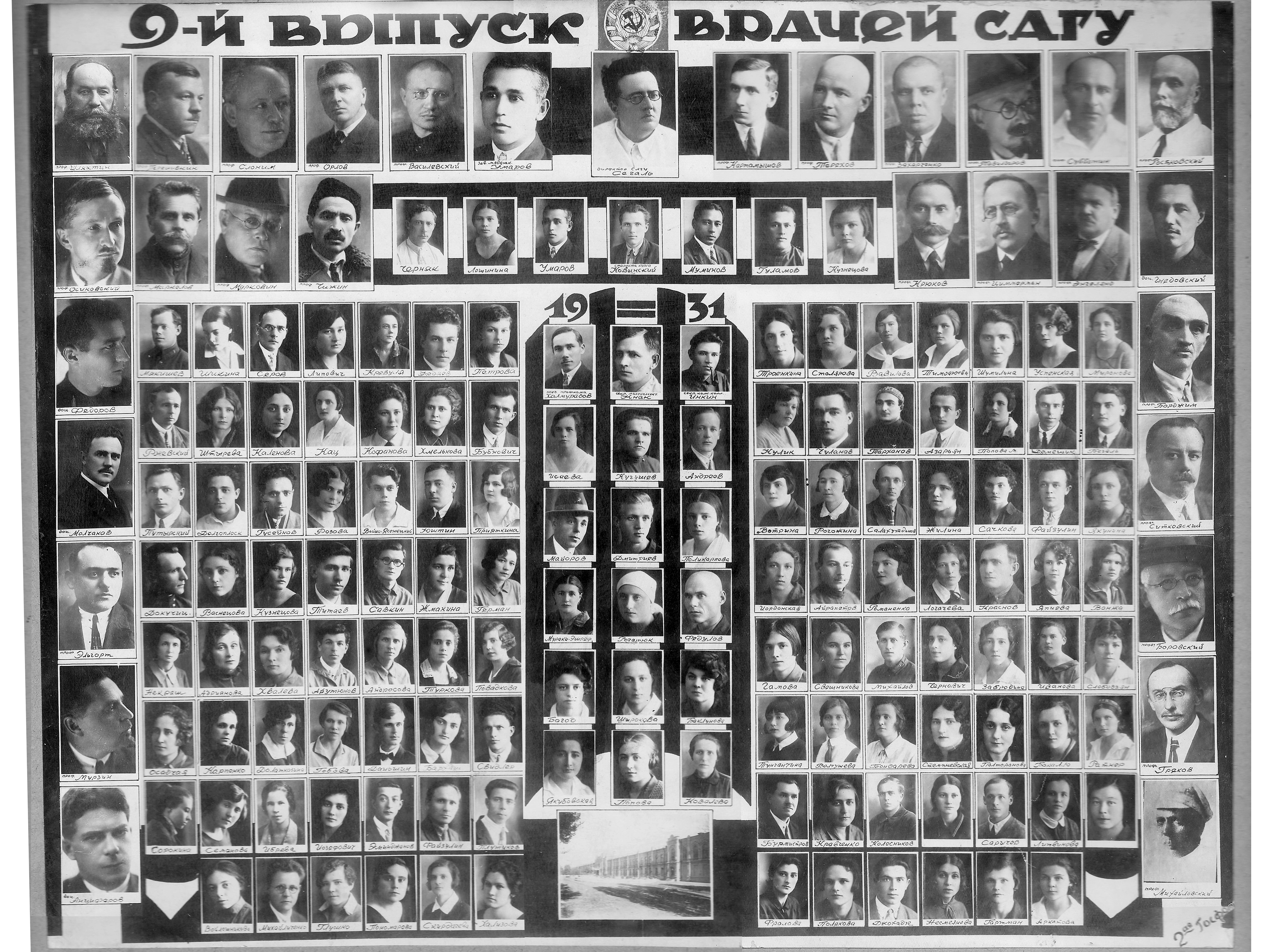 The group photo of graduates and teachers of the ninth release of doctors of the Central Asian state university in Tashkent